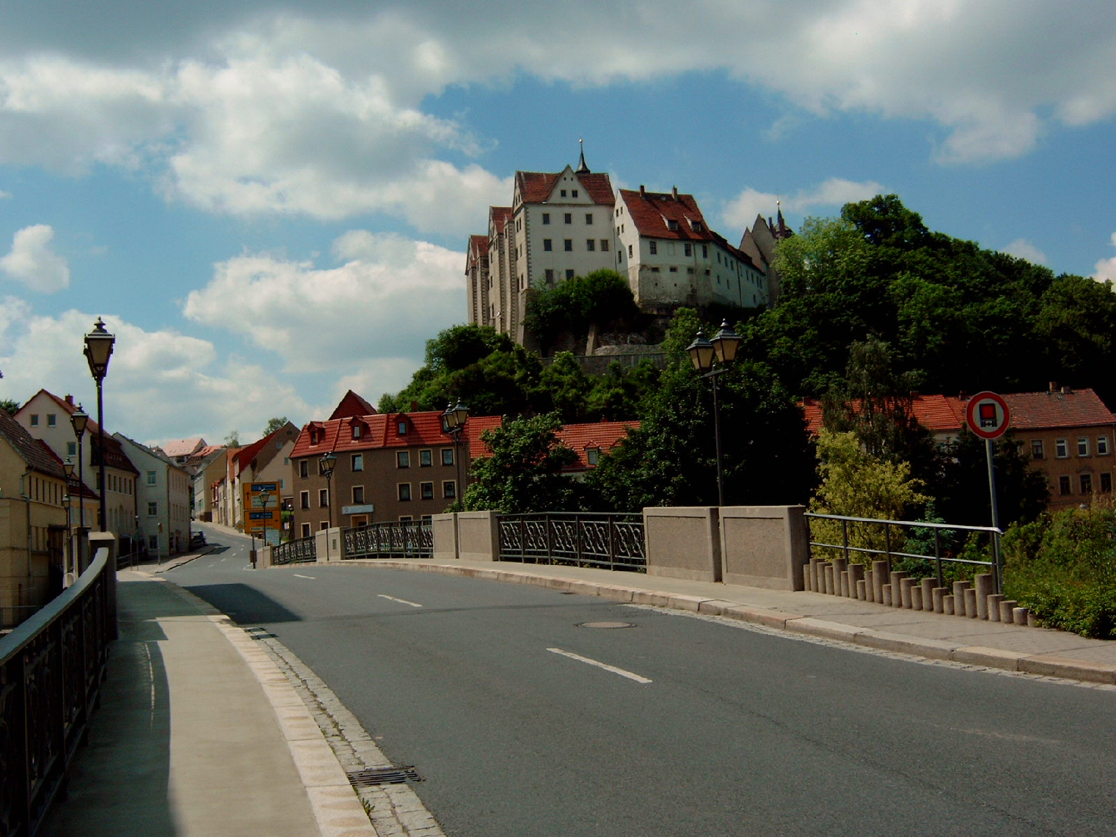 This picture shows the Pöppelmann bridge (Pöppelmannbrücke) and a view to the castle of the German town Nossen.